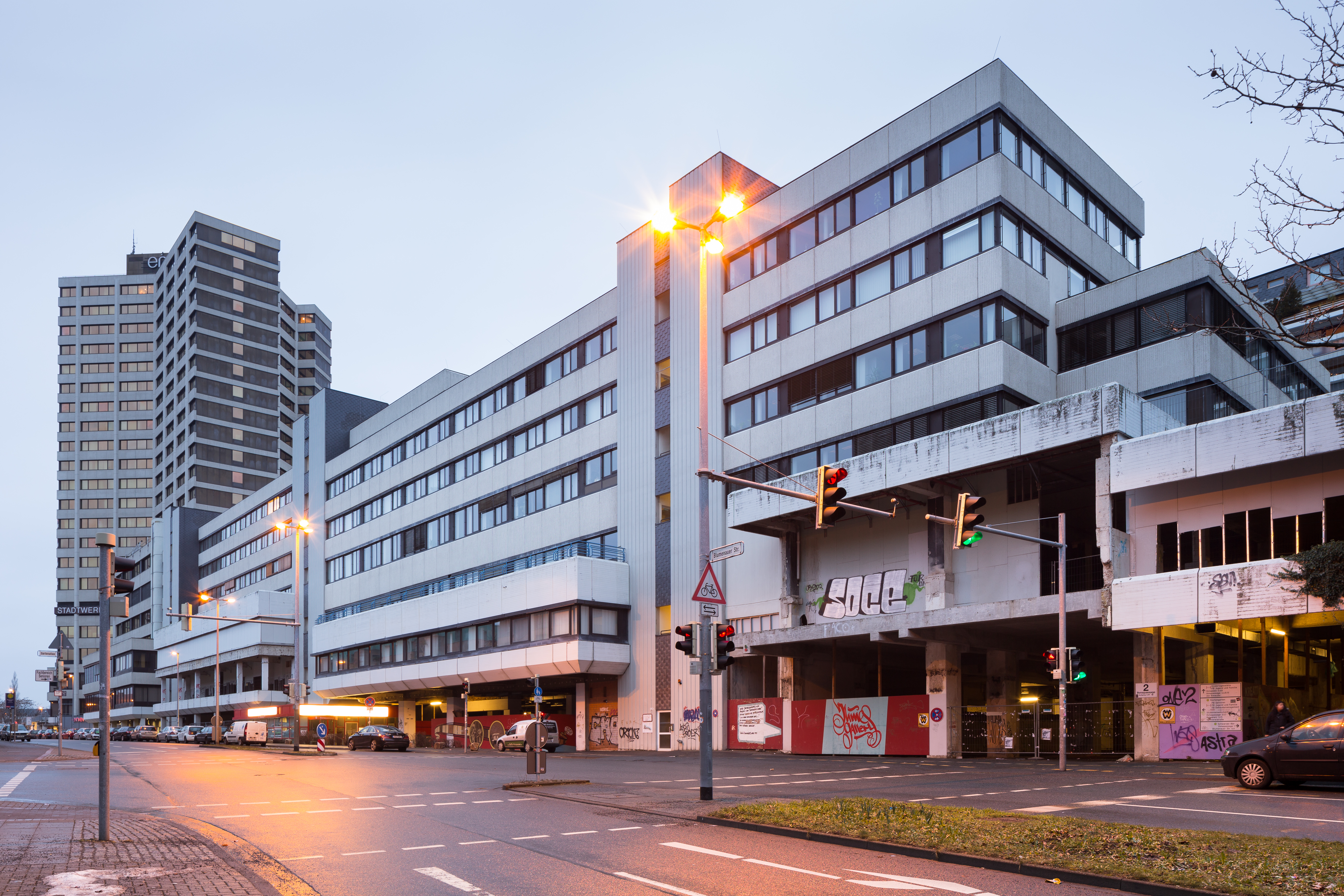 Apartment complex Ihme-Zentrum in Linden-Mitte quarter of Hannover, Germany. View of the facade towards Blumenauer Strasse near Gartenallee, view in westerly direction.